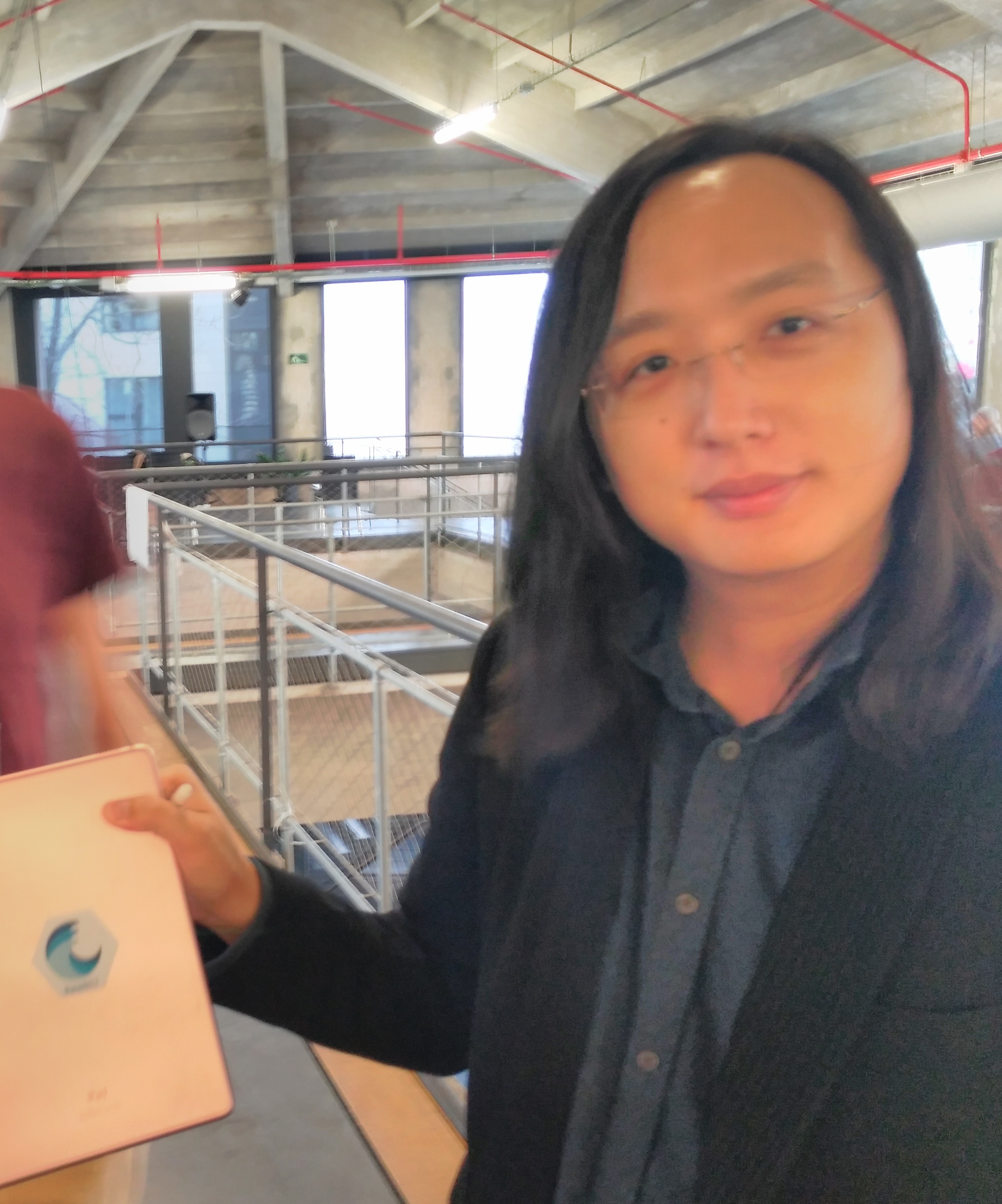 Audrey Tang and SwellRT founder met at MediaLab-Prado Madrid (Nov 2016) during international conference and hackathon on tools for collective intelligence.